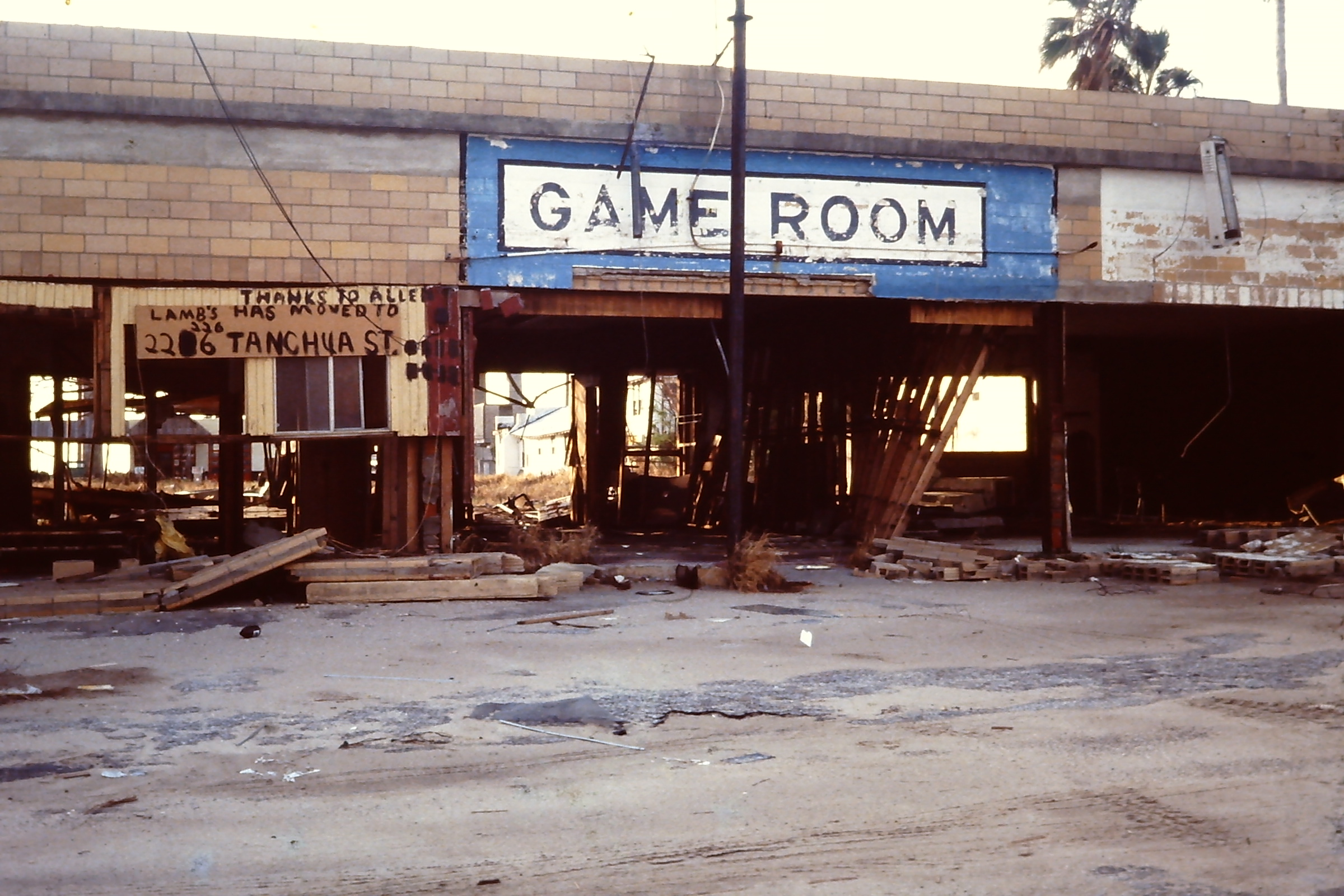 Pictures taken on Corpus Christi Beach a few weeks after Hurricane Allen landed. Most of the structures in these photos were damaged beyond repair and had to be demolished.